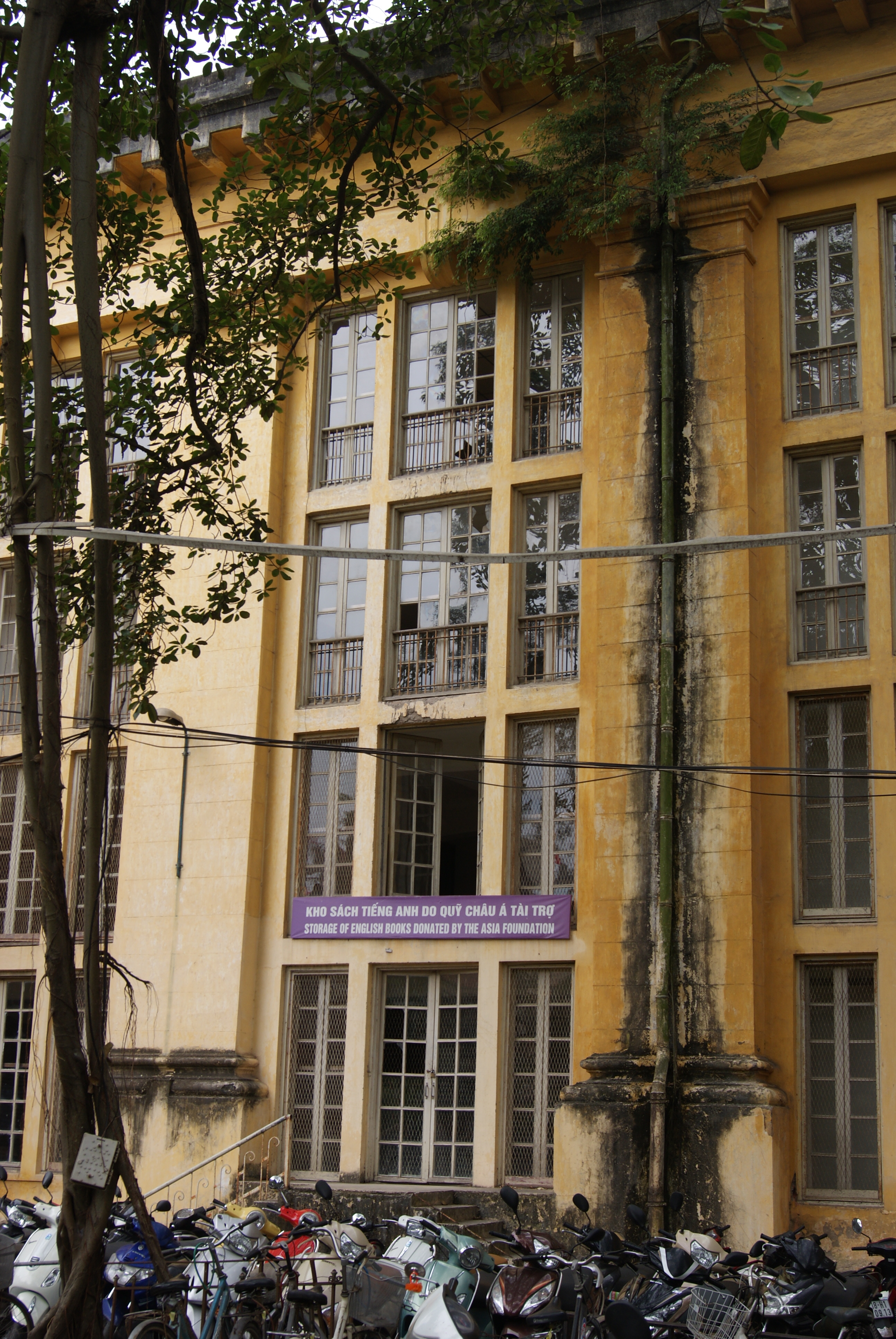 A building used to store English books donated by the Asia Foundation at the National Library of Vietnam at 31 Tràng Thi Street, Hoang Kiem, Hanoi, Vietnam.